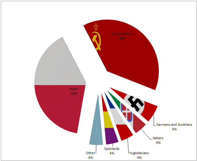 This is a mandatory correction of the chart made by Halibutt. It is outrageous that the Spanish victims of Mauthausen-Gusen are depicted using a fascist flag (Dictatorship's flag). I have deleted the shield in order to correct this situation. The flag of Spain is not a "fascist flag". The "Republican Flag" was not the flag of any country from 1939 to 1945. It is only proper to use the red-gold-red flag of Spain as its representation. Please take into account that I have renounced to use the most proper flag, the Republican Flag. Although the majority of the victims were republicans, I assume that most of the international wikipedia users cannot recognize immediately Spanish Republican flag They fought under the Republican flag and the Republican flag is still used in commemorations in all concentration camps, including of course Mauthausen. That is the adequate flag, whether users recognise it or not. It is not, based on the following: 1. The red/yellow/red Spanish flag is far from exclusive of the francoist regime, it was established a century and a half ago. 2. At the time of the Holocaust, as has been noted, it wasn't Spain's nor any other country's flag. 3. Applying the same criterium, the nazi flag shouldn't represent German nor Austrian prisoners.